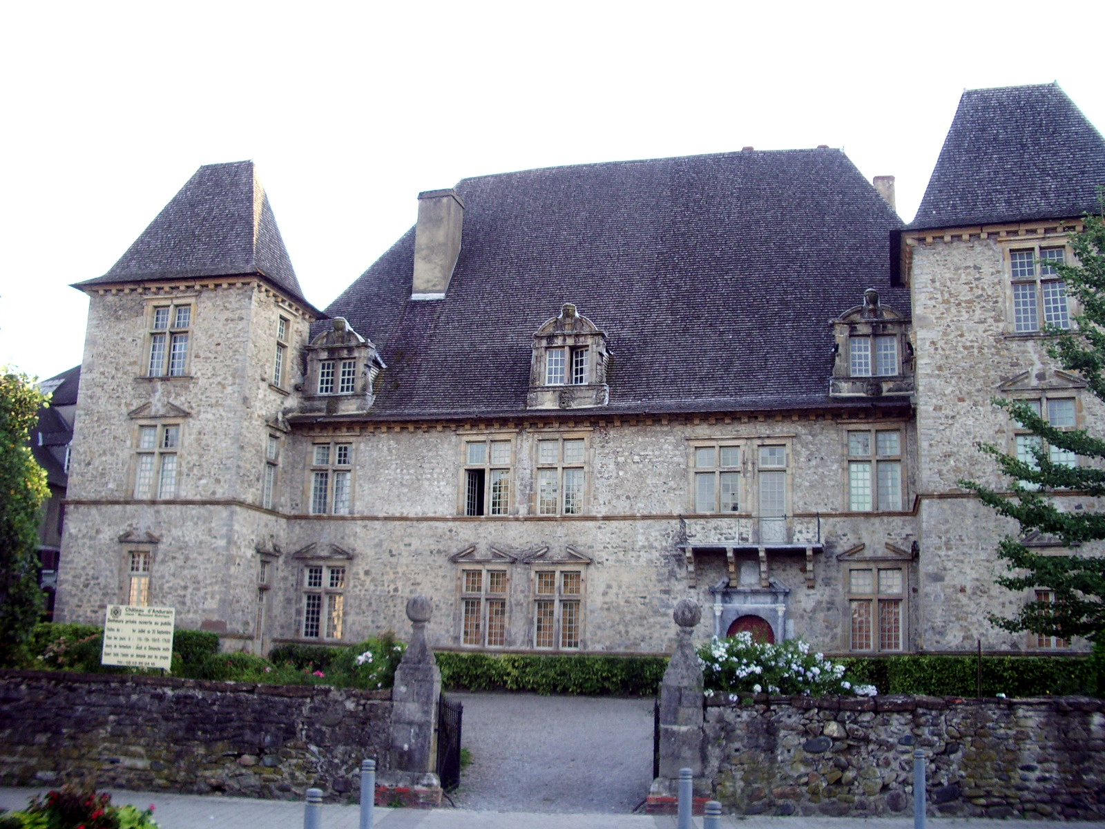 Andurain palace, Maule, Soule